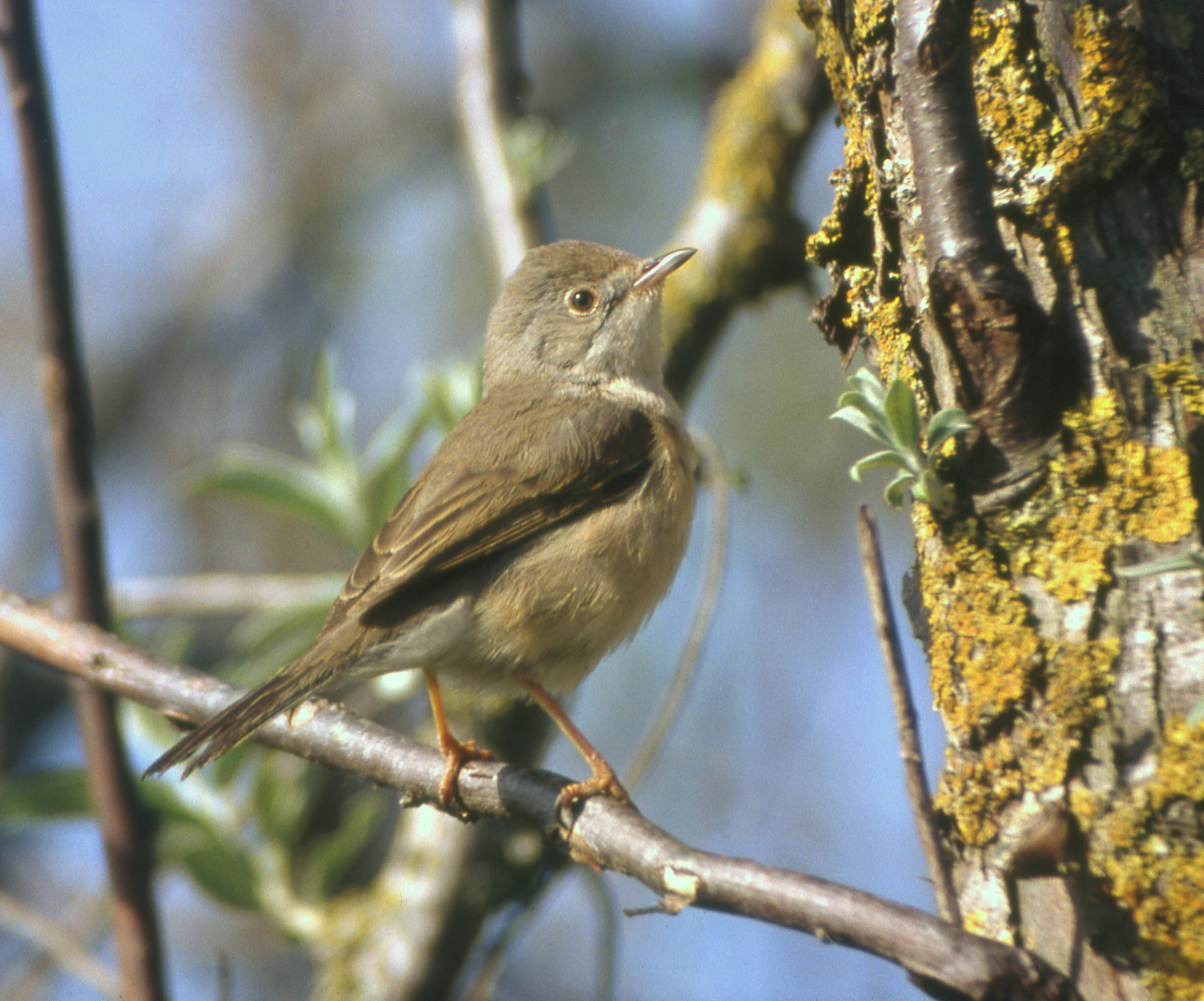 A female Western Subalpine Warbler Sylvia inornata iberiae on spring migration through the Natural Park of the Aiguamolls de l'Empordà, on the Costa Brava, northeast Spain.